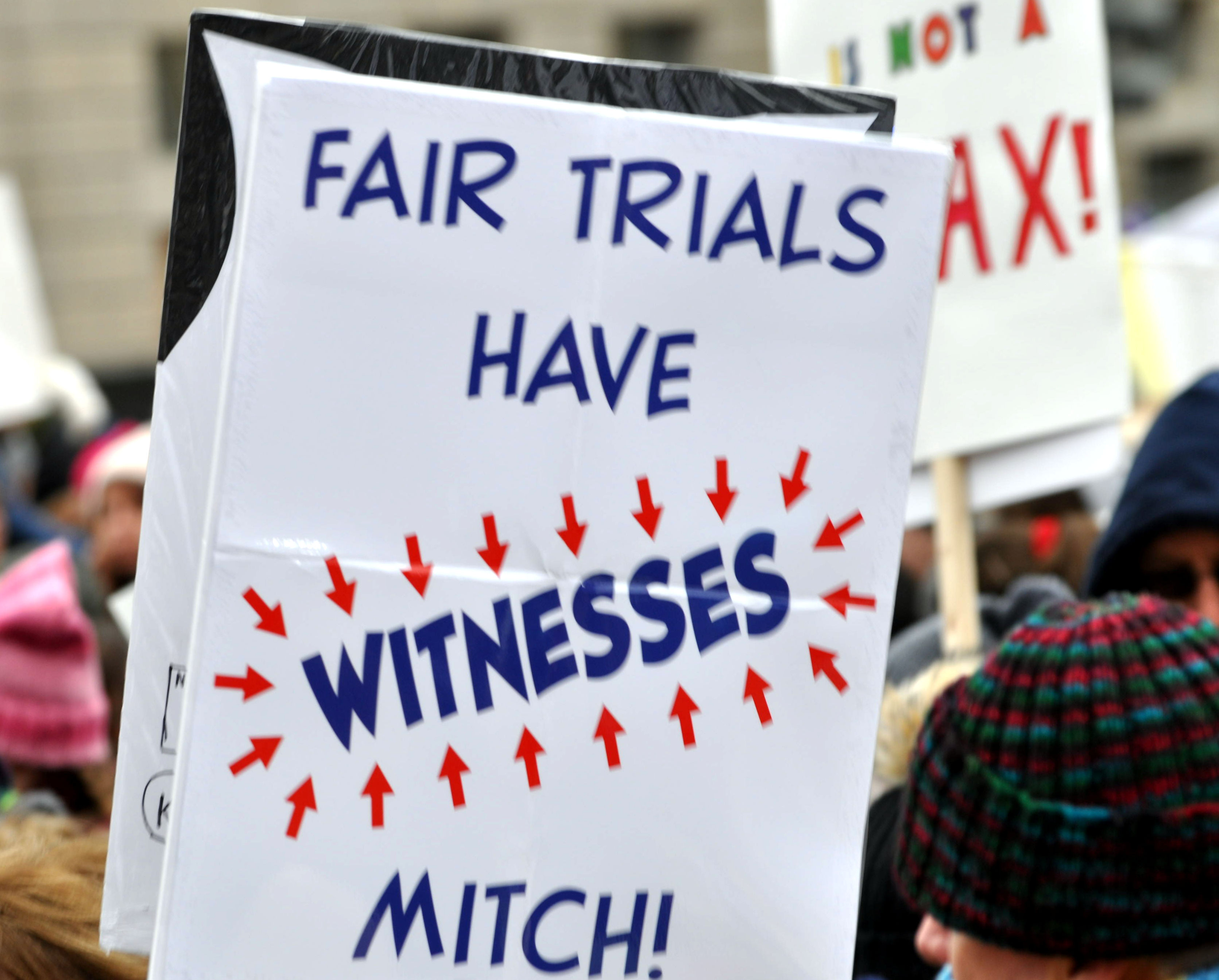 March Women's 0680